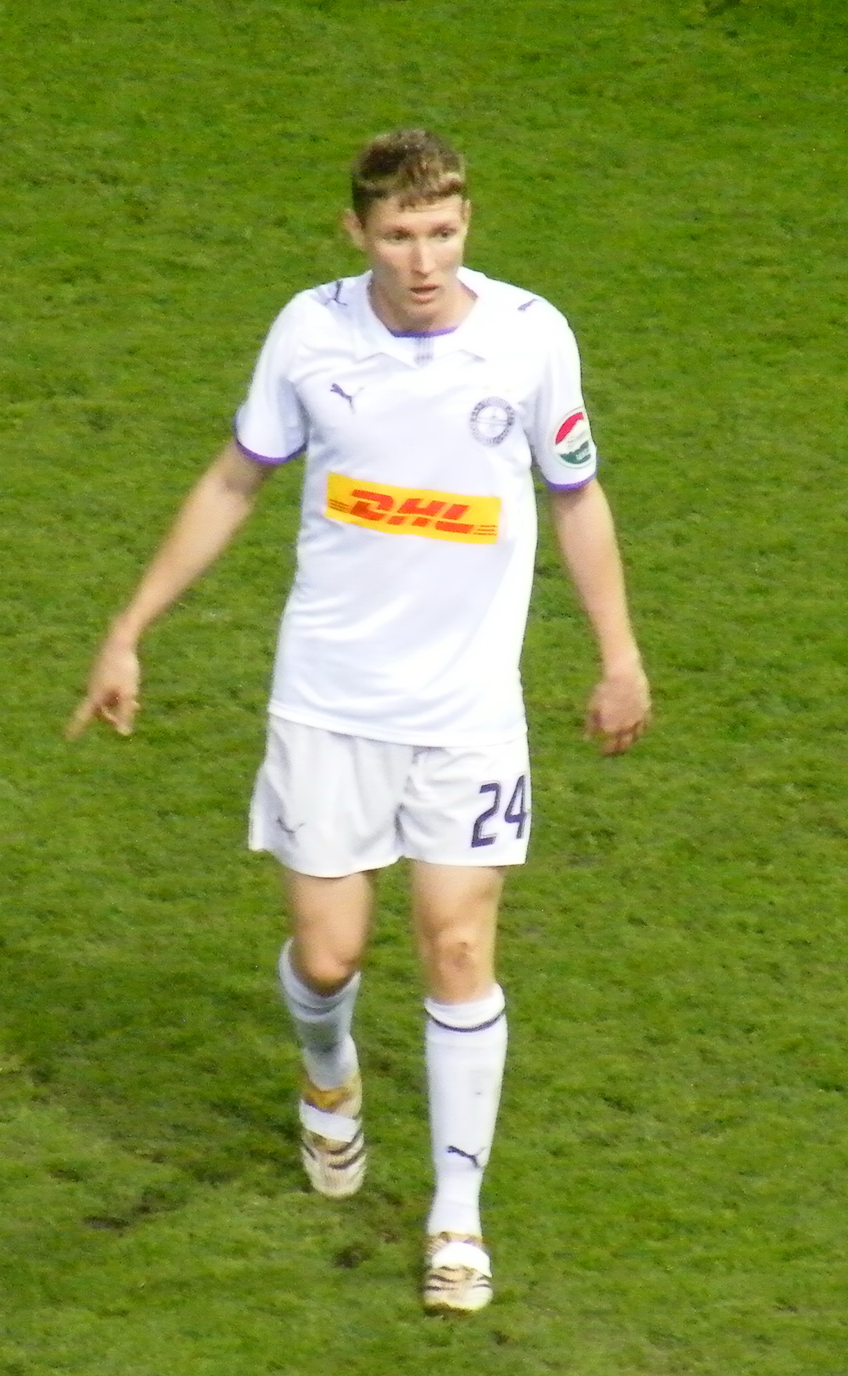 Zoltán Pollák Hungarian association football player.